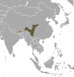 Elegant Water Shrew (Nectogale elegans) range